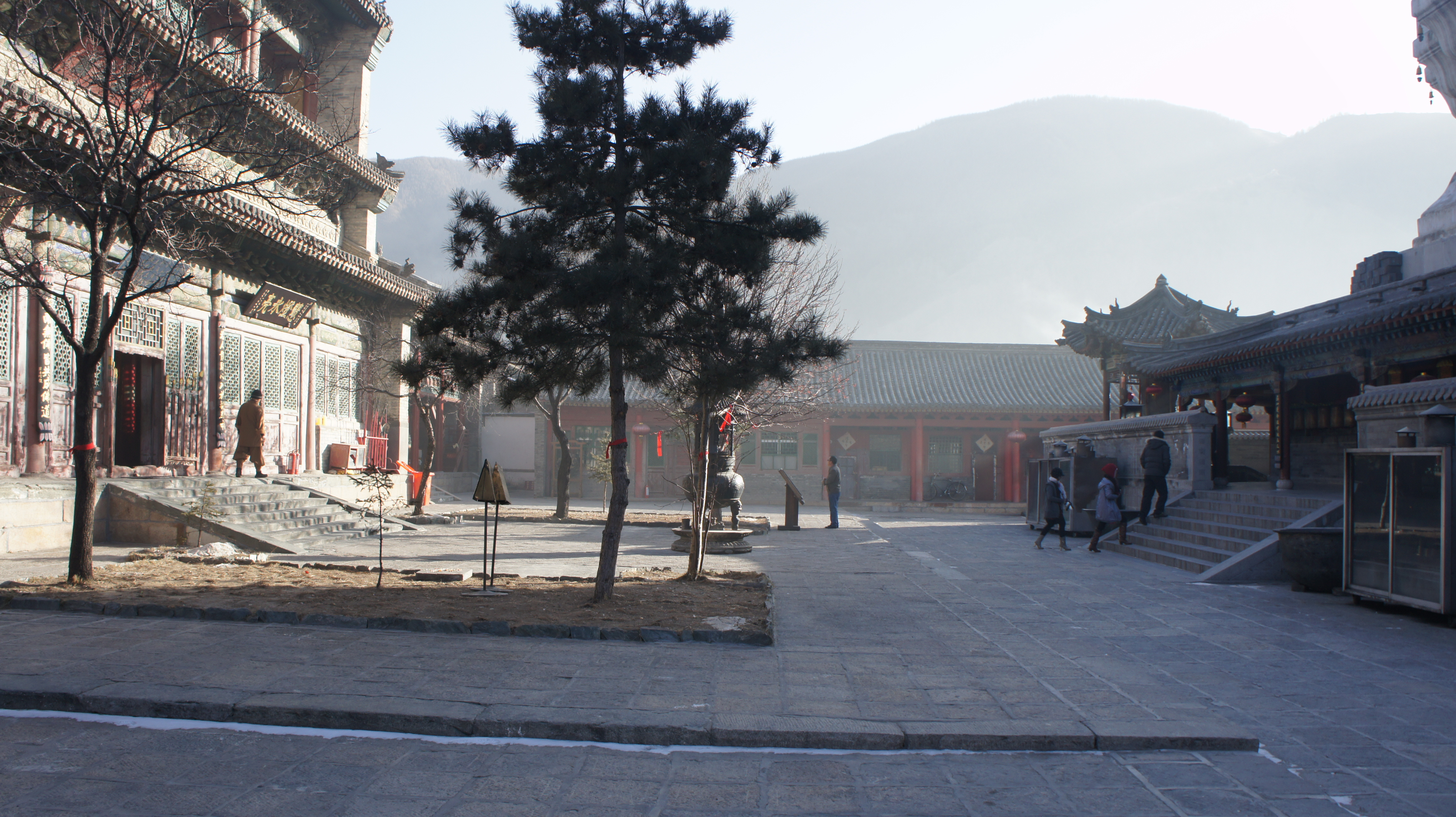 Temple of Mount Wutai.